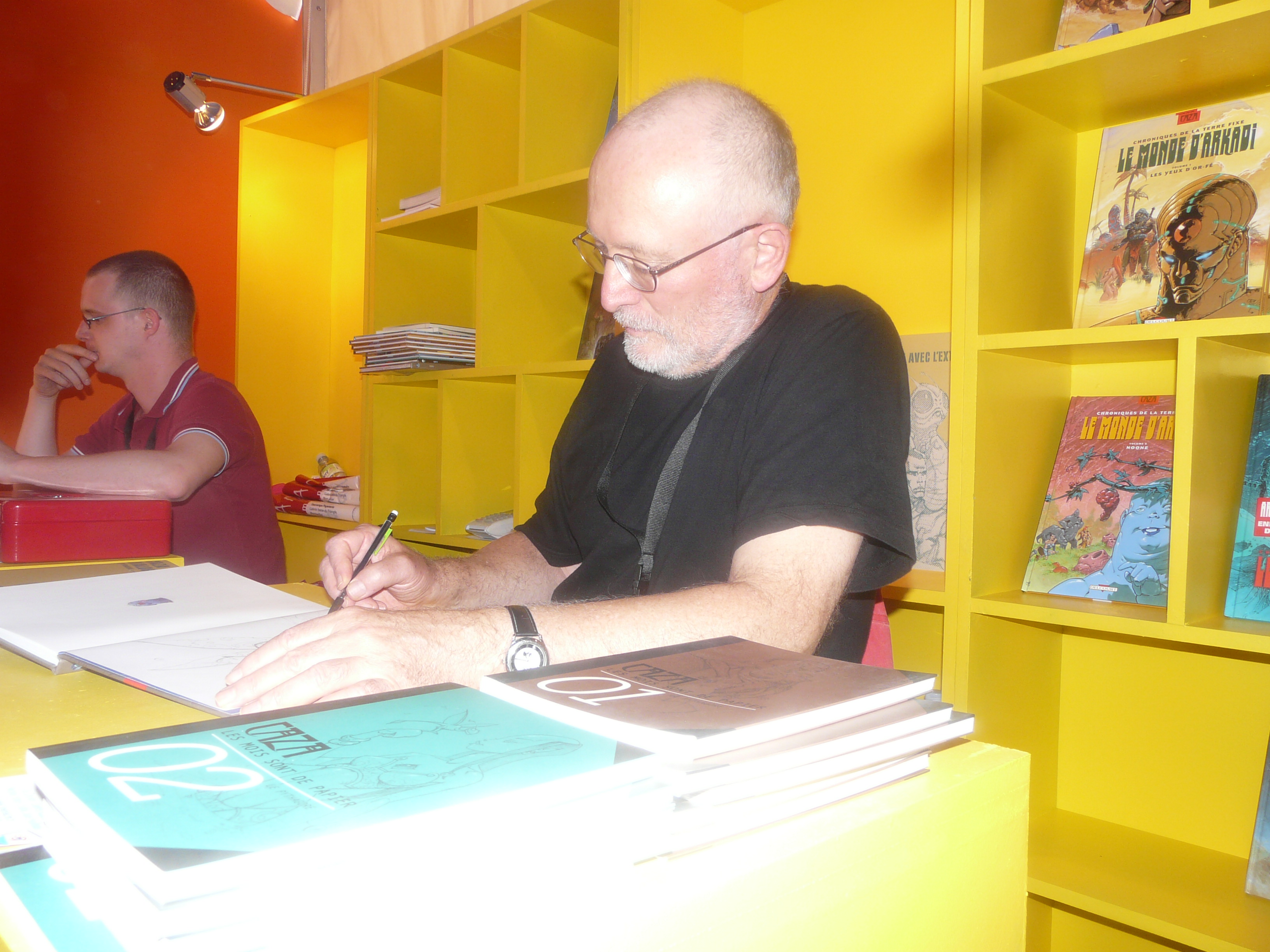 Photographs taken during the Comic Festival "O tour de la bulle" of Montpellier, France